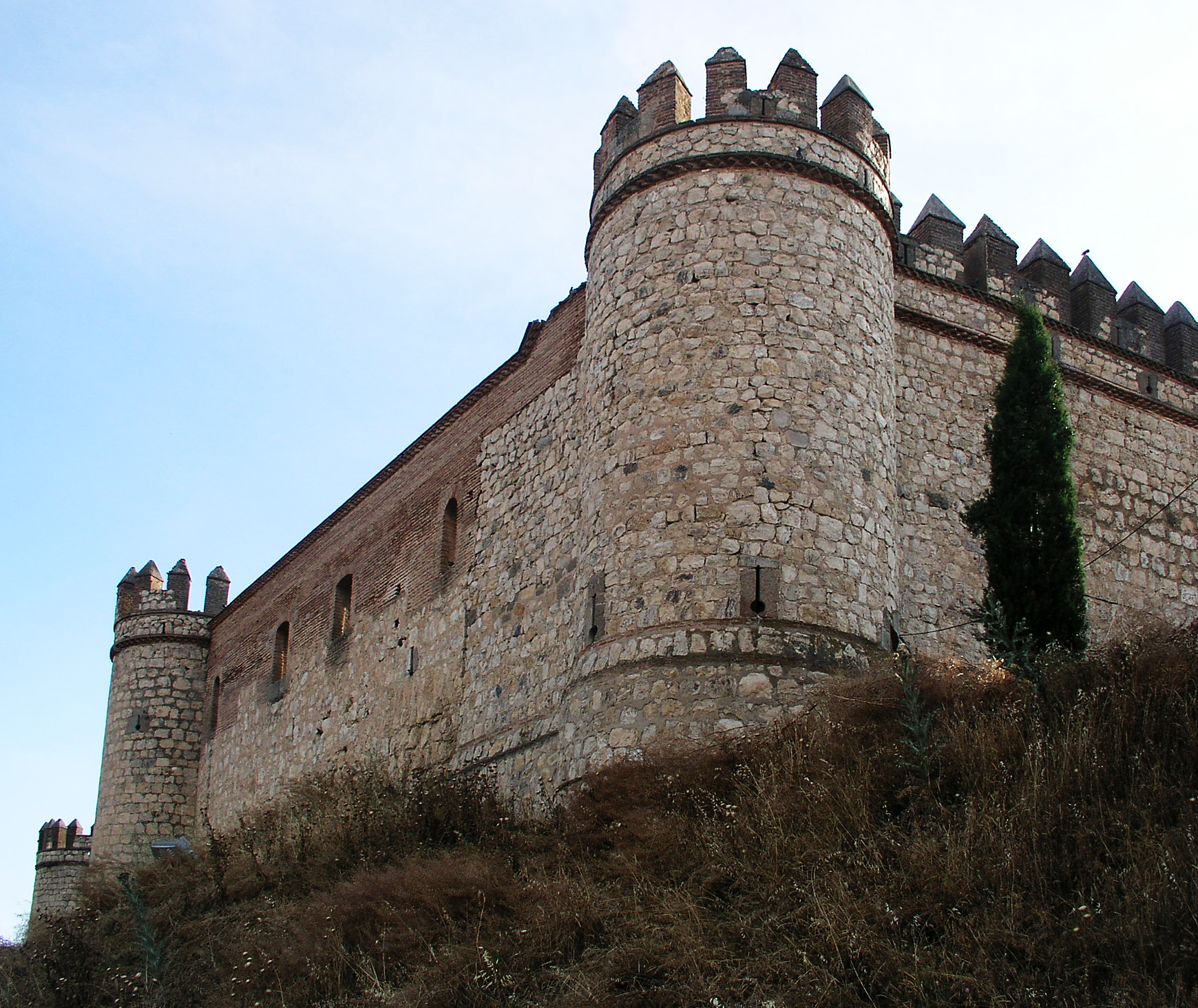 Castillo. Maqueda, Province of Toledo, Spain